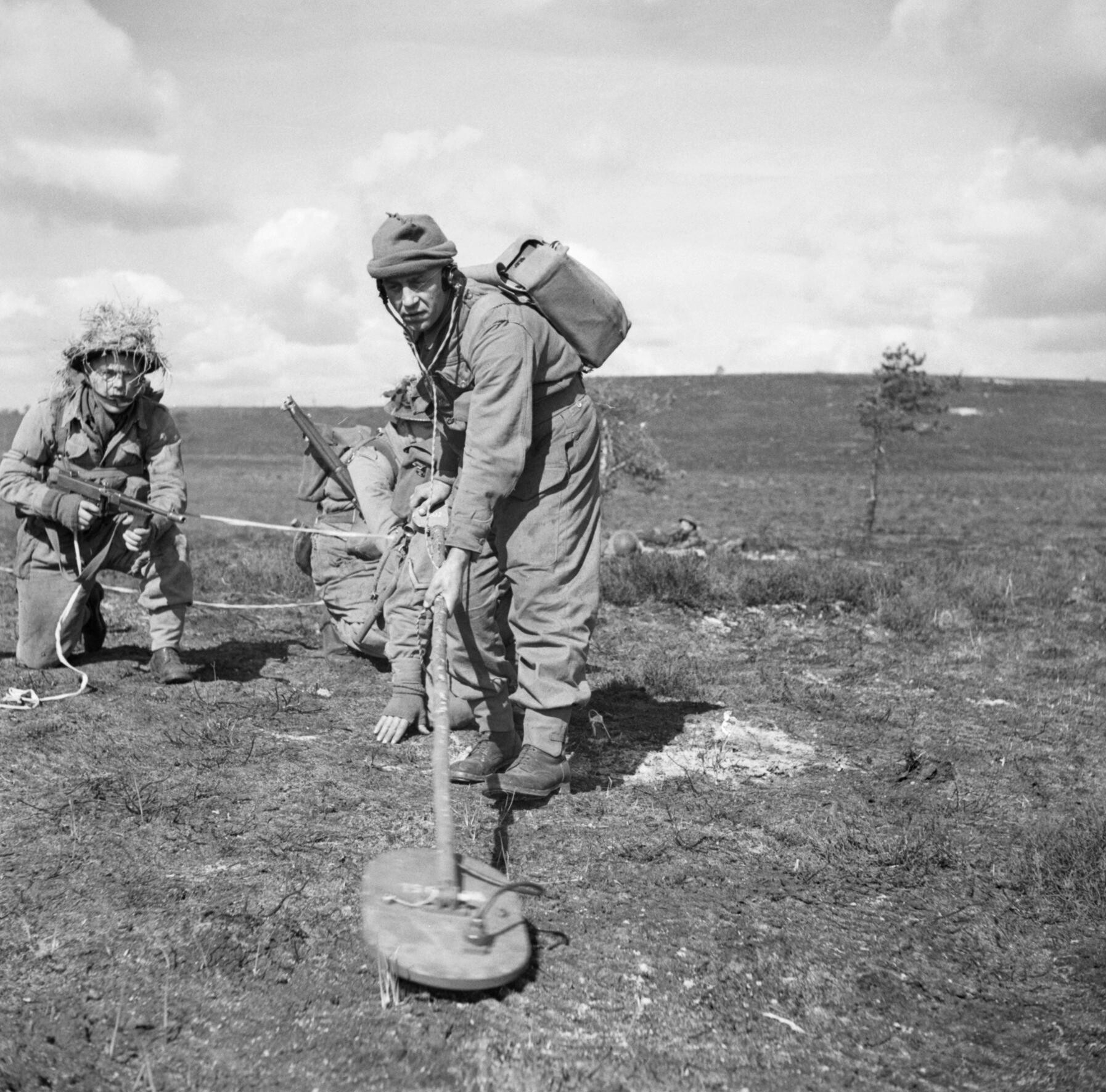 Infantry mine-detecting team in training at Studland in Dorset, 7 May 1943. Infantry mine-detecting team in training at Studland in Dorset, 7 May 1943.